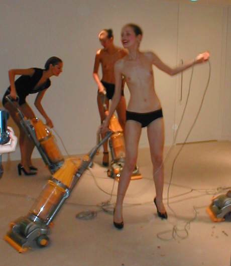 Imitation of Christ, Tara Subkoff by David Shankbone, New York City. Photographer's blog post about this photo and the event it was taken at.